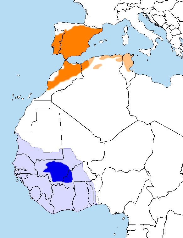 Range map ( Breeding and Migration) of Caprimulgus ruficollis)